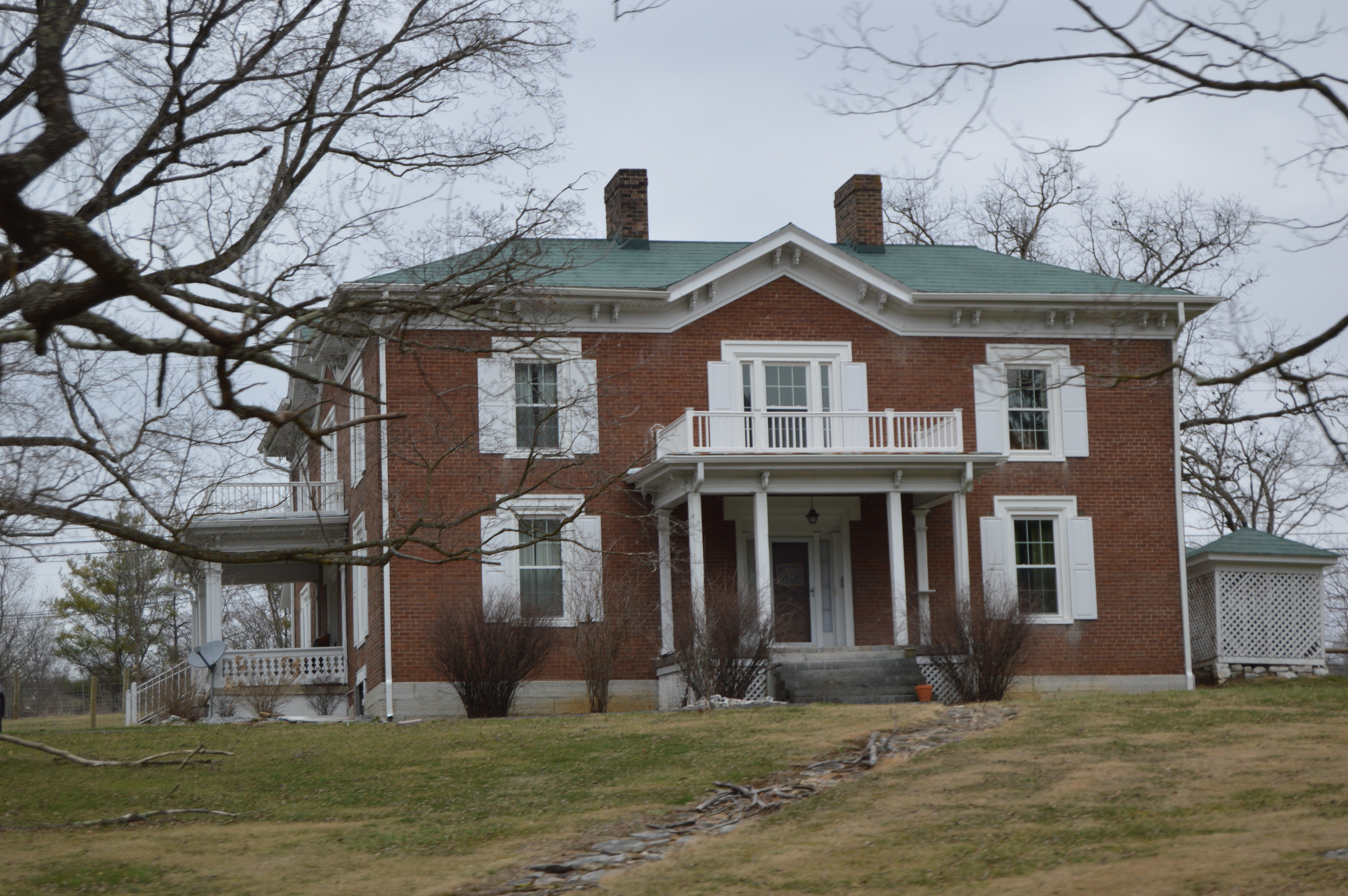 Front and western side of the Alexander St. Clair House, located on Hockman Pike in extreme western Bluefield, Virginia, United States. Built in 1879, it is listed on the National Register of Historic Places.